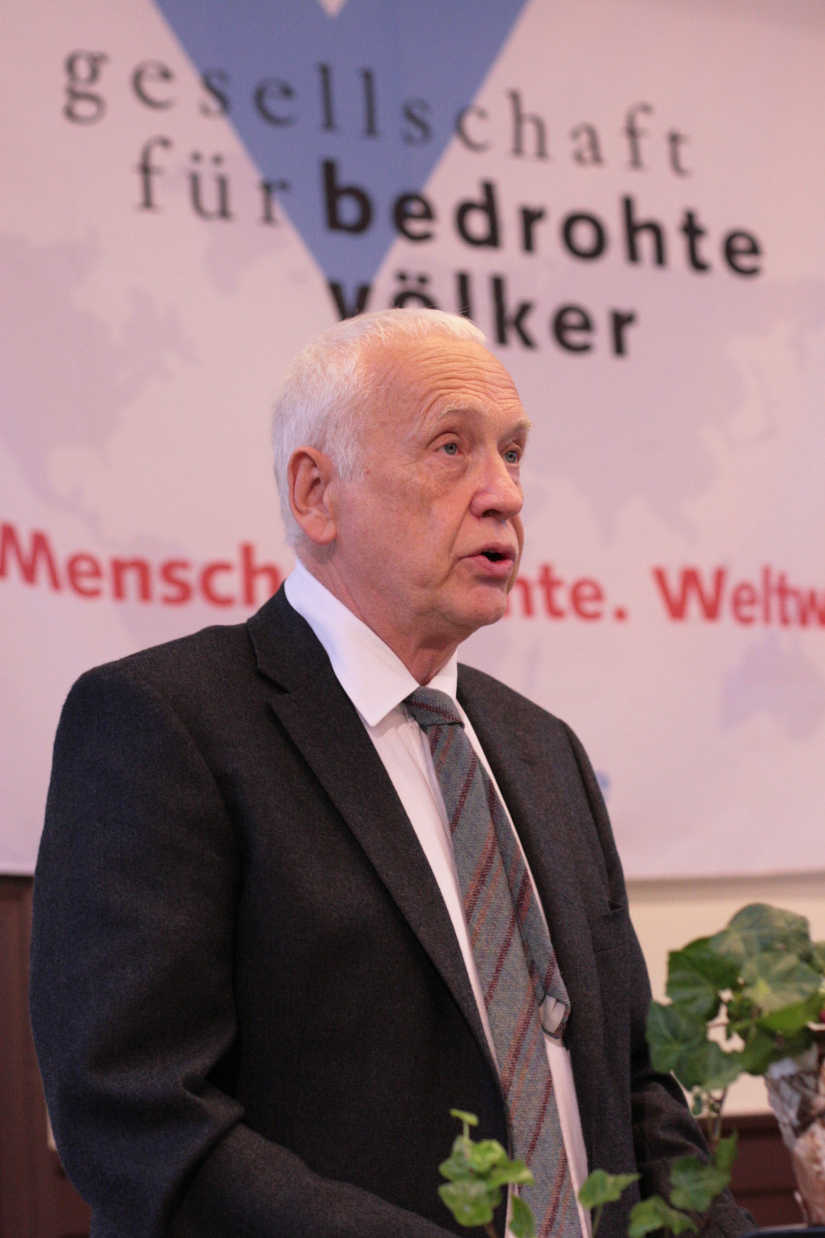 Tilman Zülch, Foto: Katja Wolff/ 2010